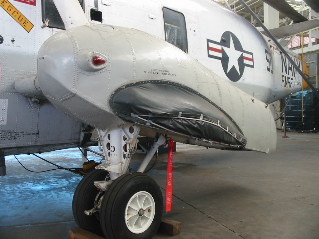 Port pontoon of a former U.S. Navy Sikorsky UH-3H Sea King (BuNo 152700) at the Pacific Aviation Museum on Ford Island, Pearl Harbor, Hawaii (USA). This aircraft wears the markings of the Pacific Missile Range Facility (PMRF).